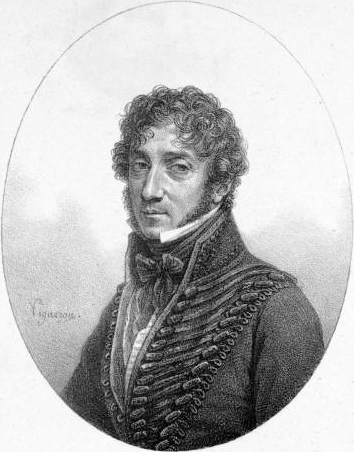 Italian opera singer Felice Pellegrini (1774-1832) by Pierre-Roch Vigneron (1789-1872).